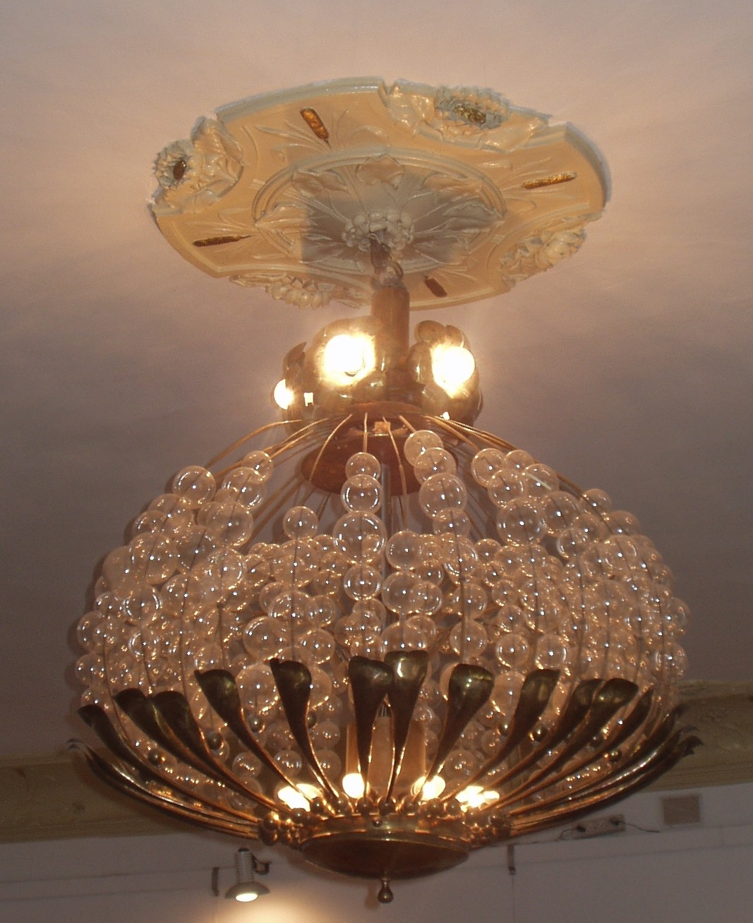 Leopold Kindermann villa, Lodz 31 Wólczańska Street